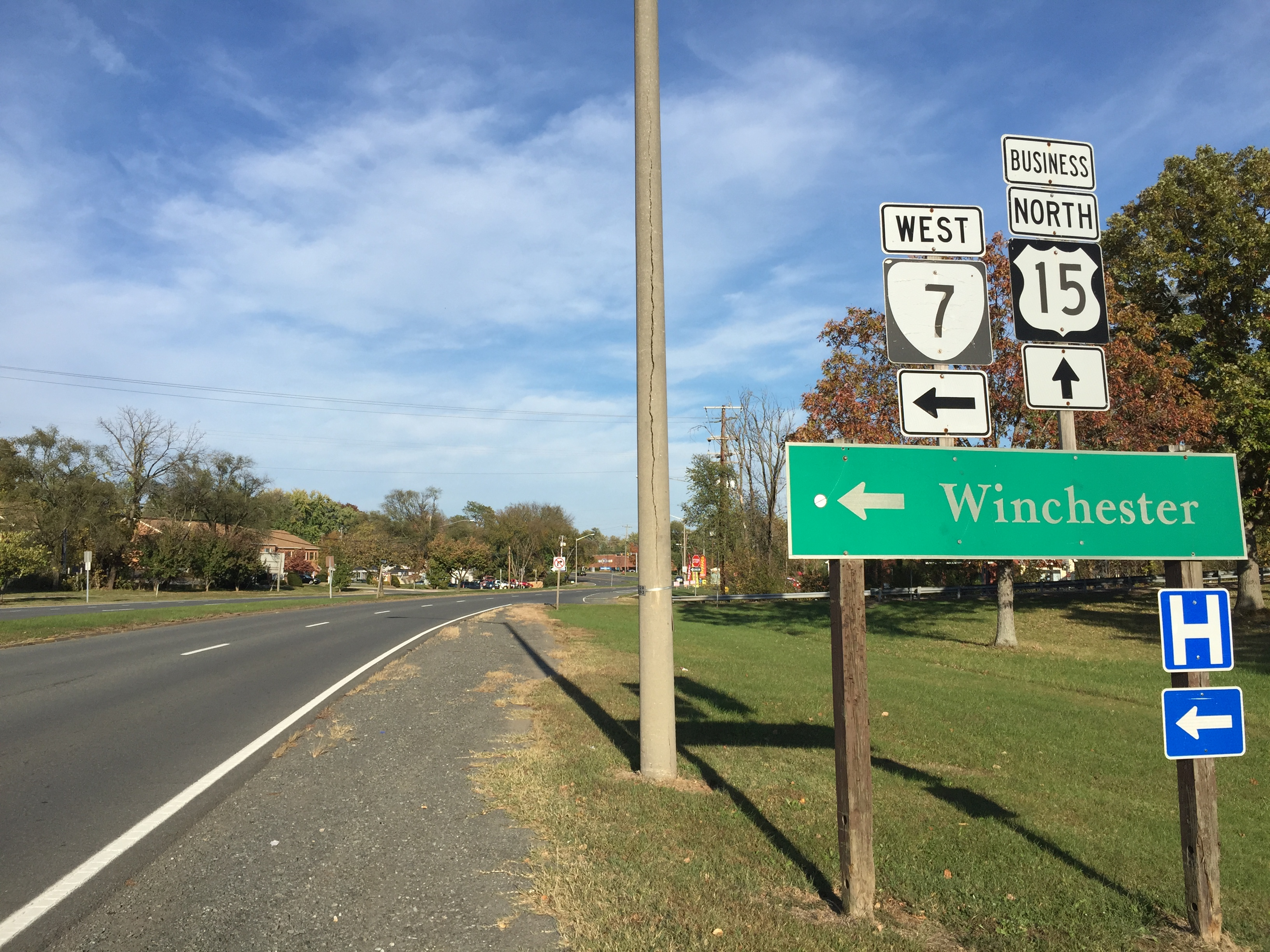 View north along U.S. Route 15 Business (King Street) at Virginia State Route 7 (Leesburg Bypass) in Leesburg, Loudoun County, Virginia